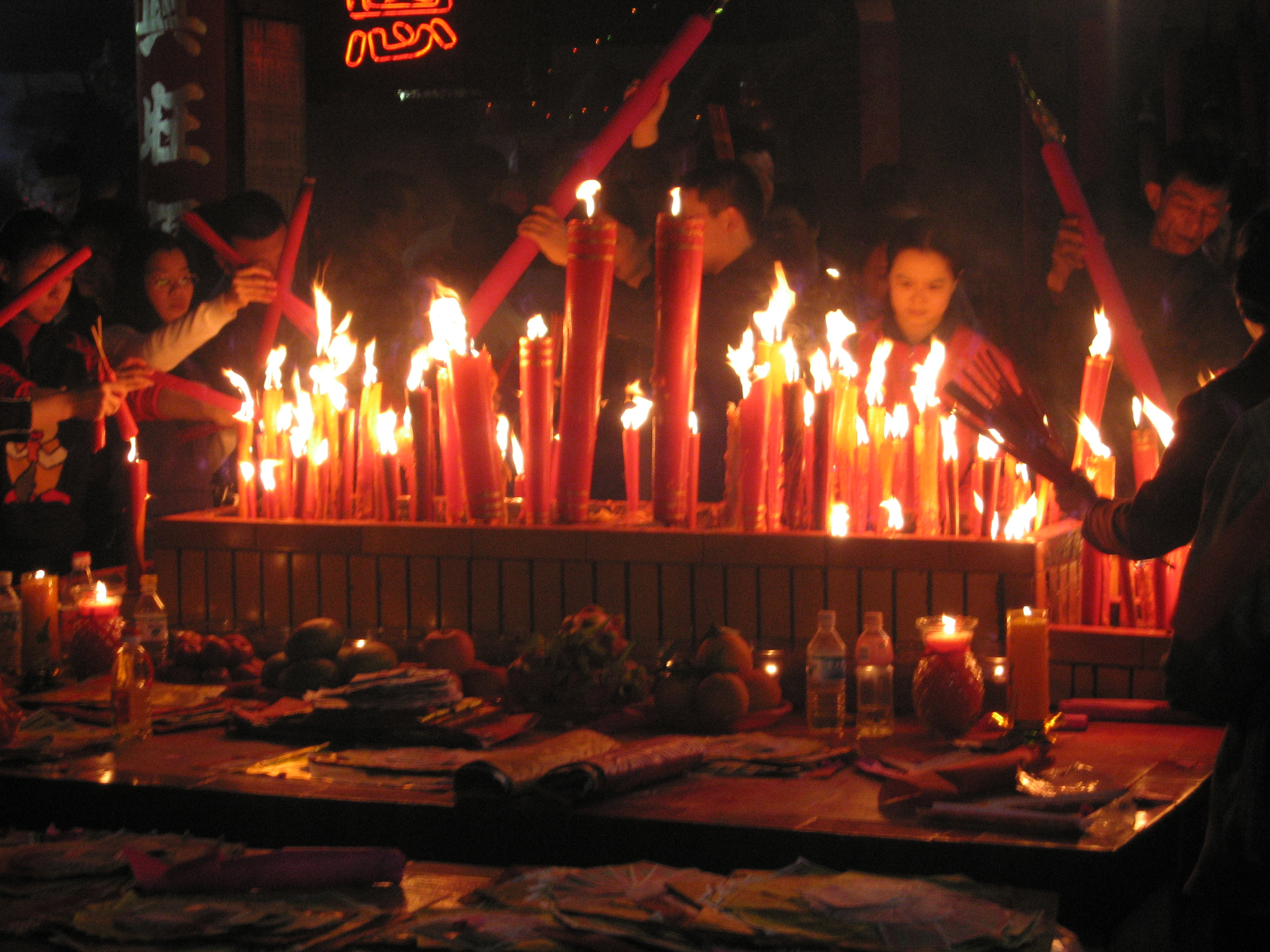 On Chinese New Year's Eve in Meizhou. Fireworks are set off to ward off the bad spirits from the previous year and welcome the new year in. Candles and incense are also lighted during prayers, like this scene on Chinese New Year's Eve.